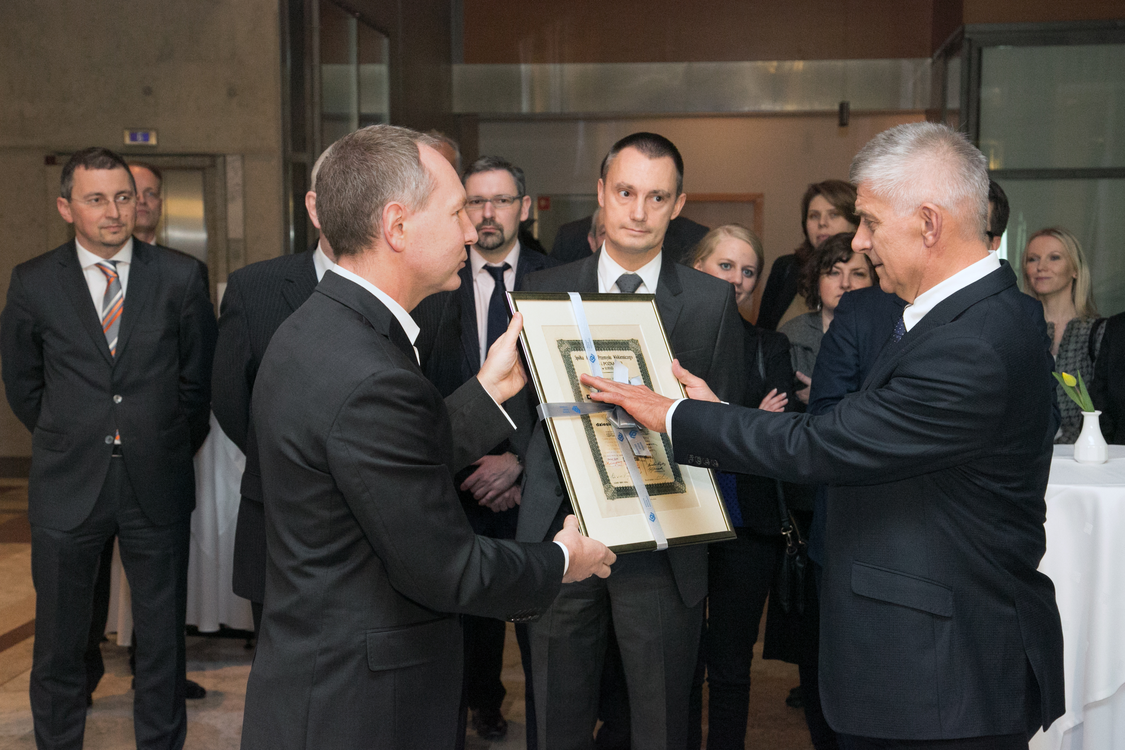 GPW-CEO Adam Maciejewski overgives memorial stock document to NBP president Marek Belka at the unveiling ceremony of Galeria Chwały Polskiej Ekonomii, March 6th, 2014 at Warsaw Stock Exchange